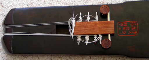 Picture of the new tuning device for the guqin.